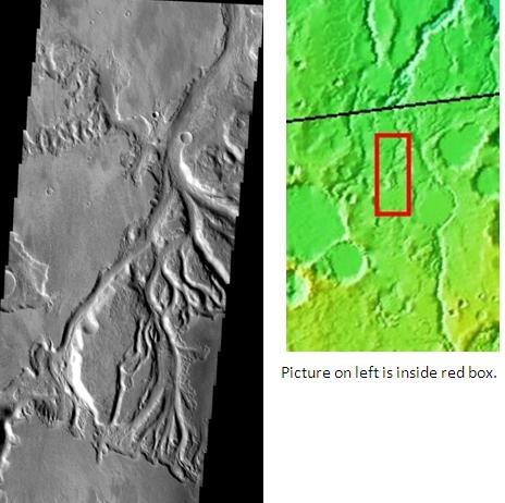 Sabis Vallis, as seen by themis. Location is 5.7 degrees south latitude and 207.8 degrees east longitude. Picture is 18.4 km wide. Image was taken with the Mars Odyssey's THEMIS. The picture credit is NASA/JPL/ASU